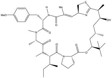 Apratoxin A